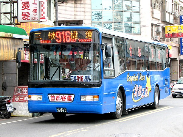 A special "Capital Star" painting HINO ERK bus is operated by Capital Bus Co., Ltd.